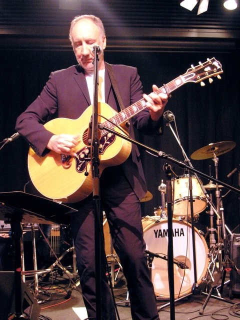 Pete Townshend